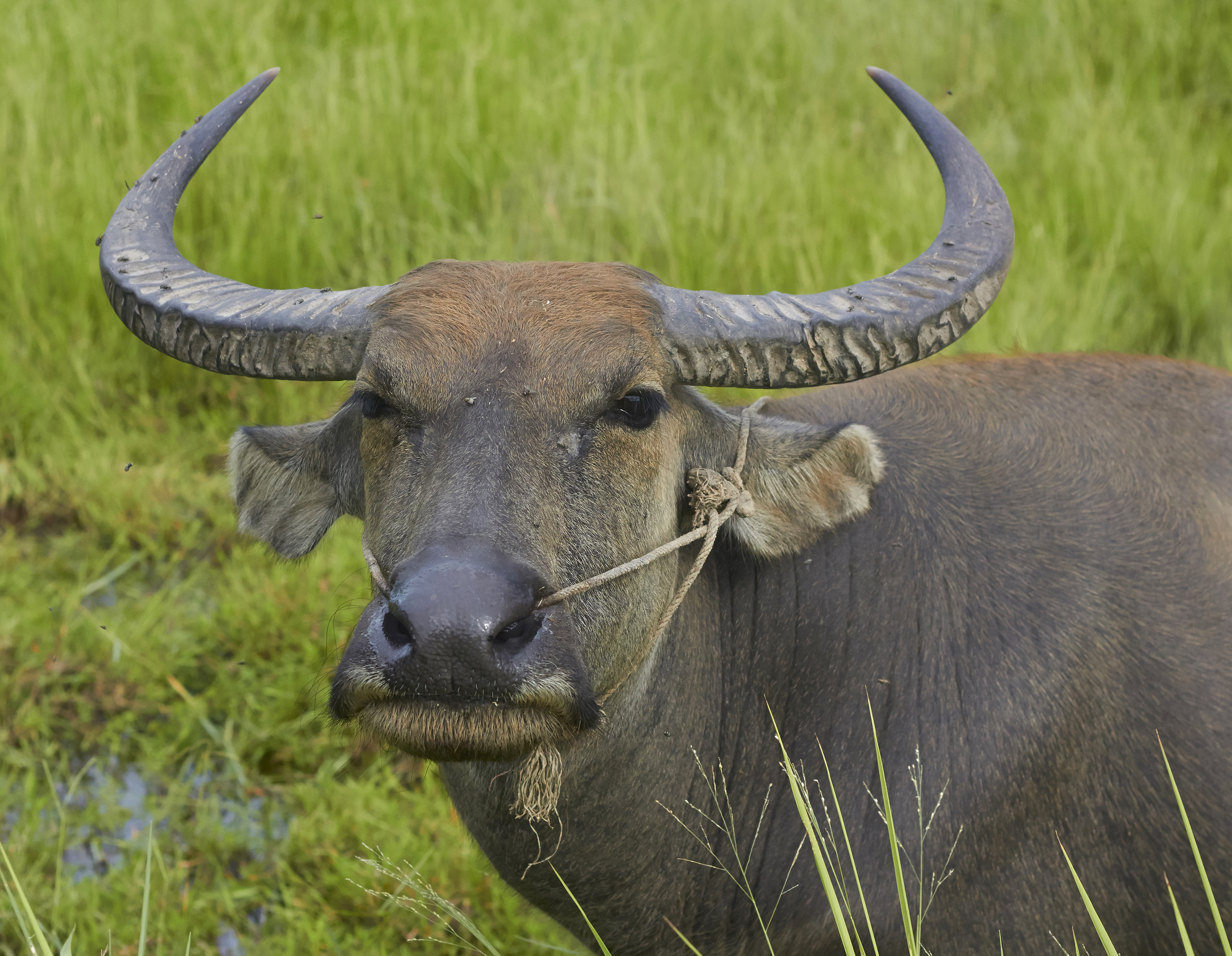 Water buffalo of Cambodia ភាសាខ្មែរ: ក្របីទឹកកម្ពុជា